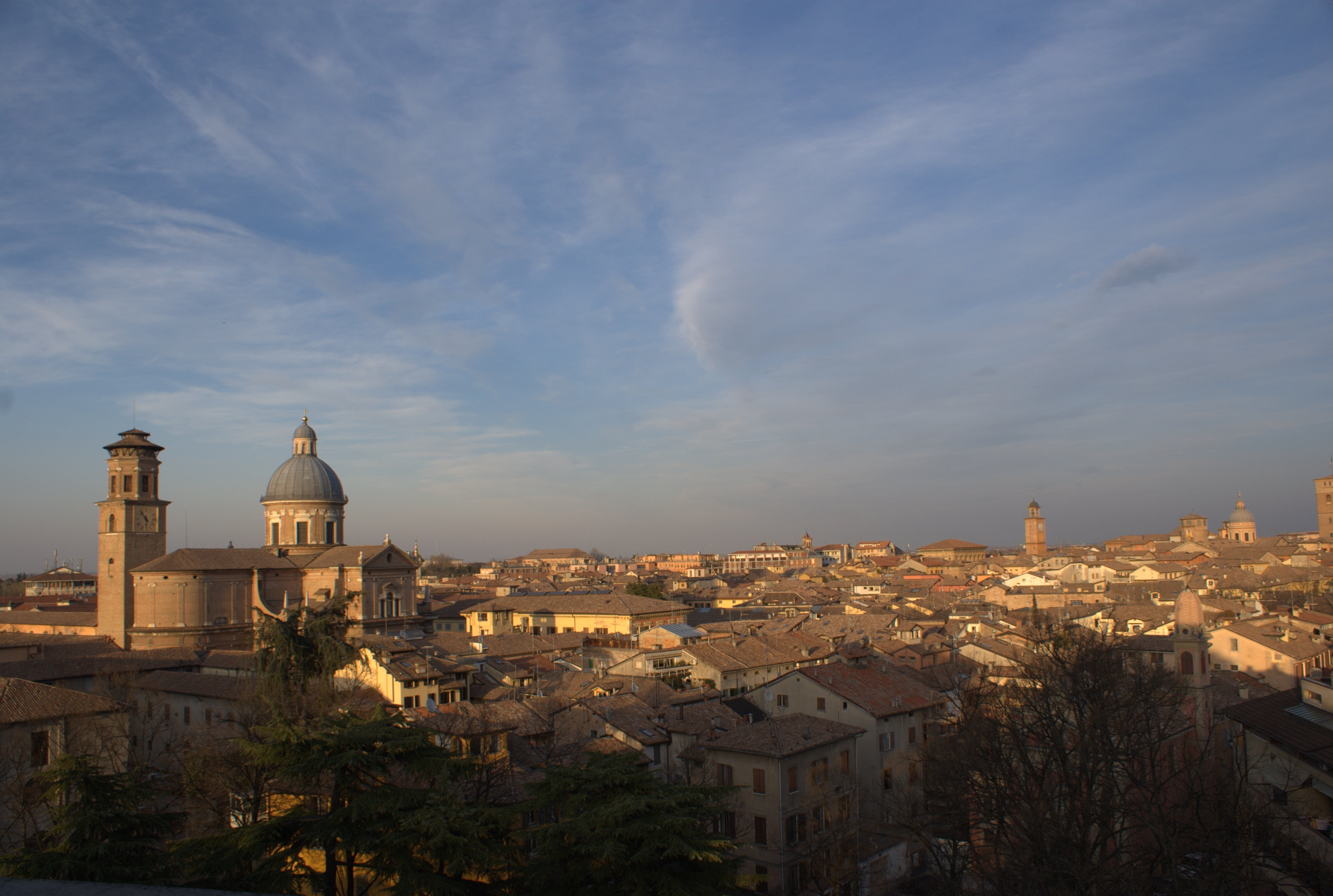 Skyline of Reggio Emilia, Italy